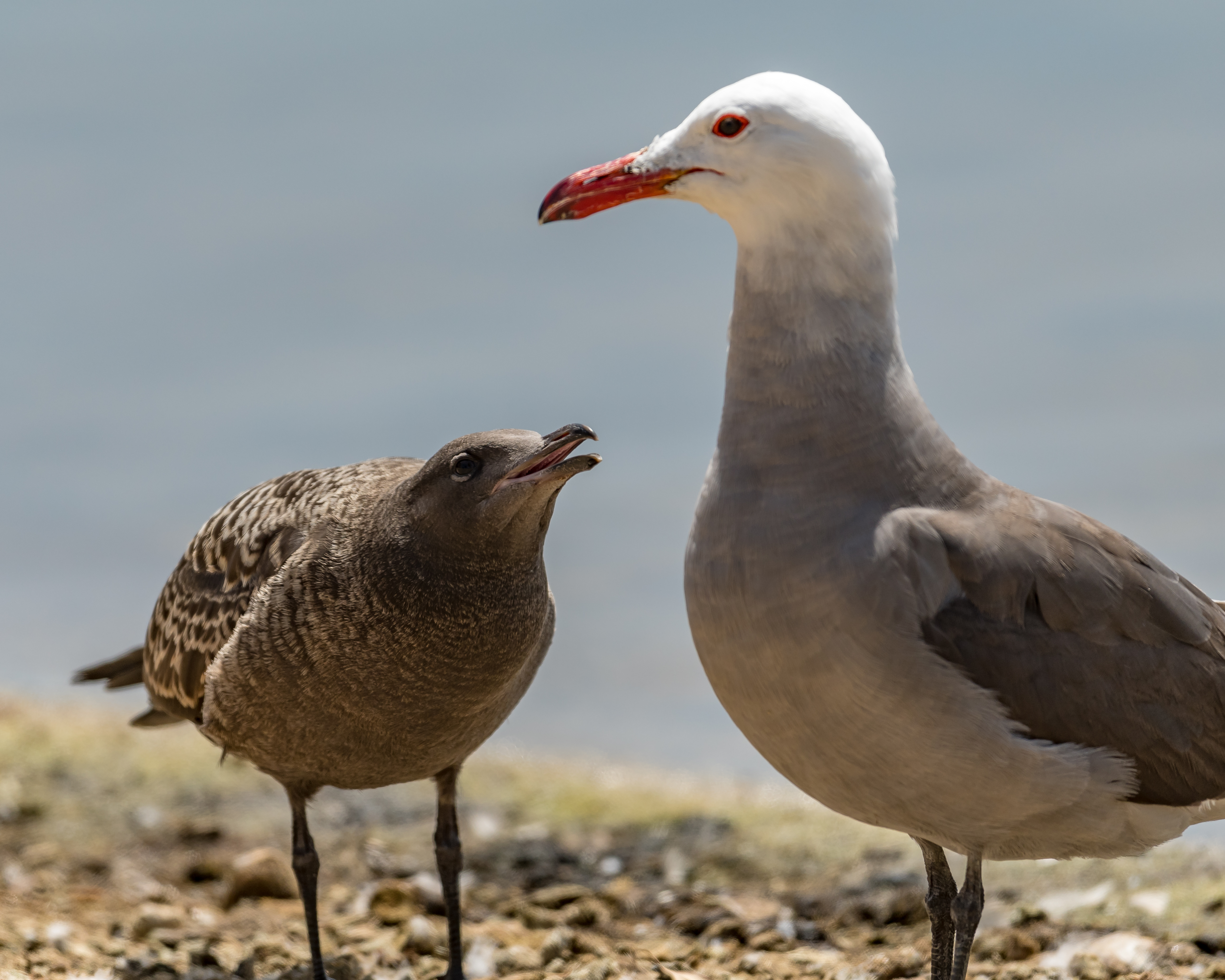 An adult Heermann's gull with its newly fledged chick along the shore of Roberts Lake